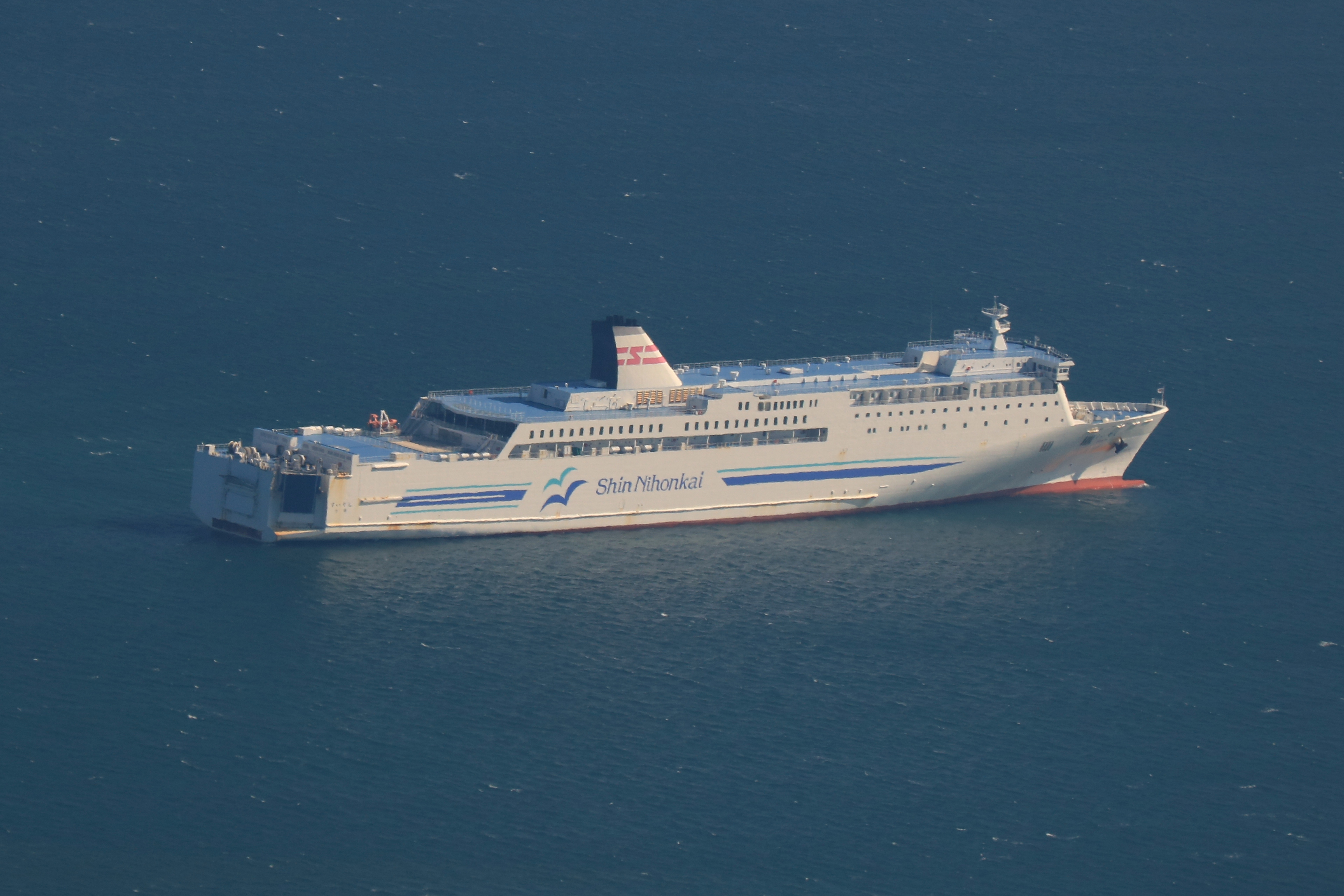 Suisen (ship, 2012) of Shinnihonkai Ferry sailing Tsuruga Bay seen from Mount Saiho in Fukui Prefecture, Japan.